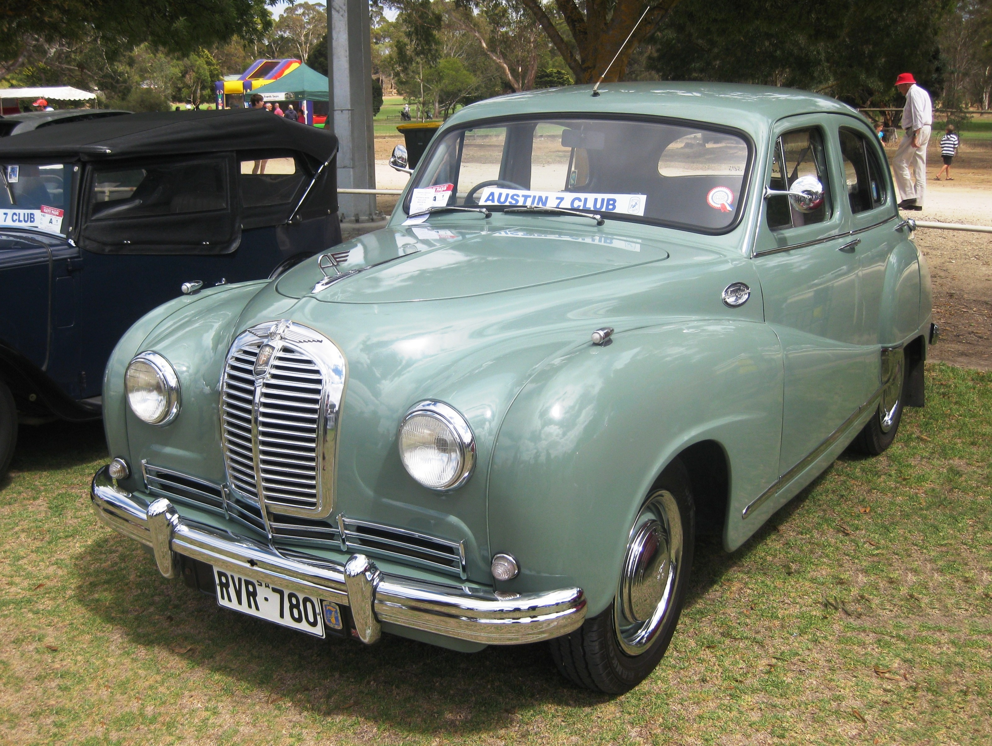 1954 Austin A70 Hereford